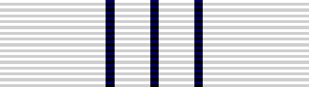 DOS Distinguished Honor Award Ribbon